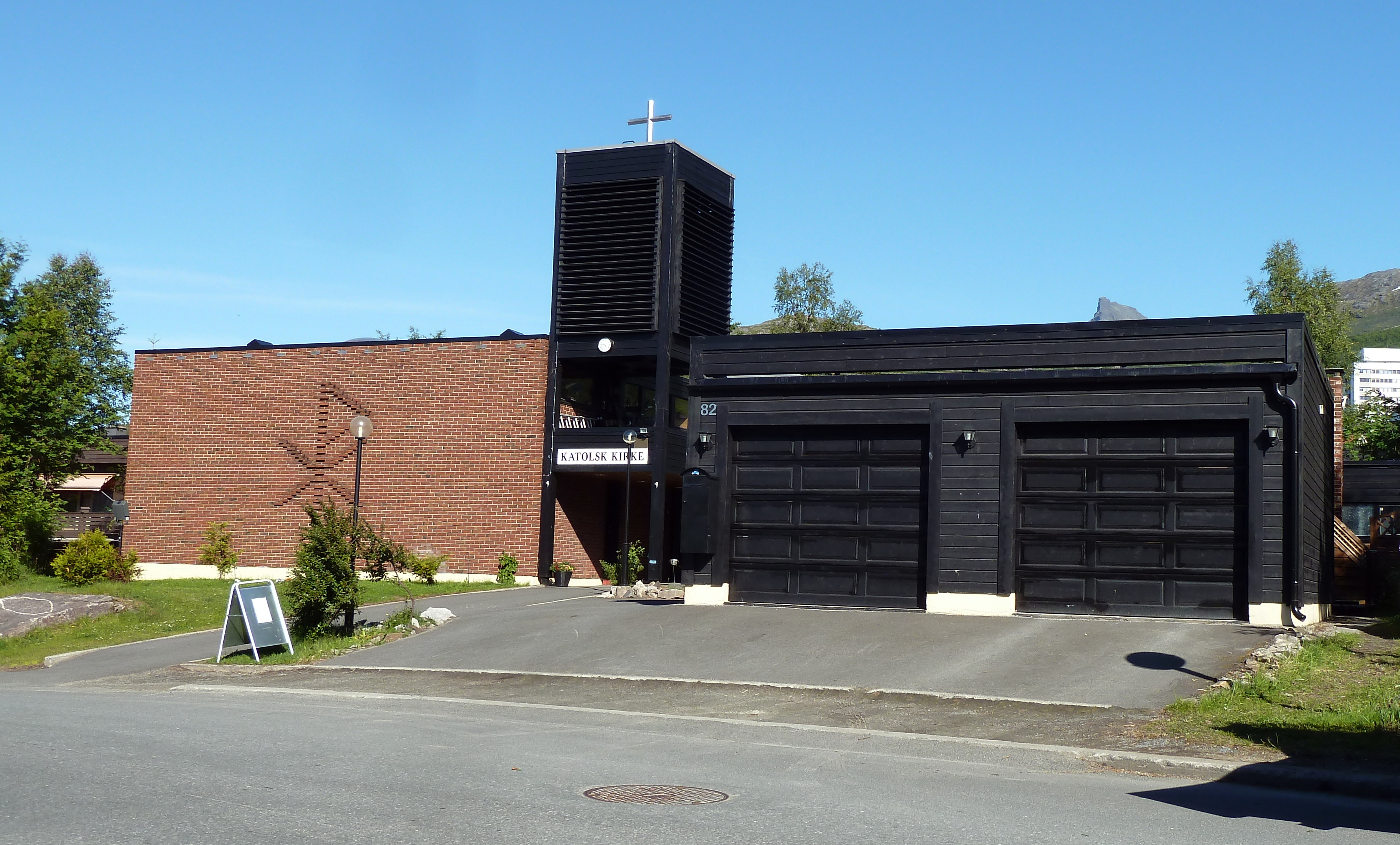 Catholic church in Narvik.